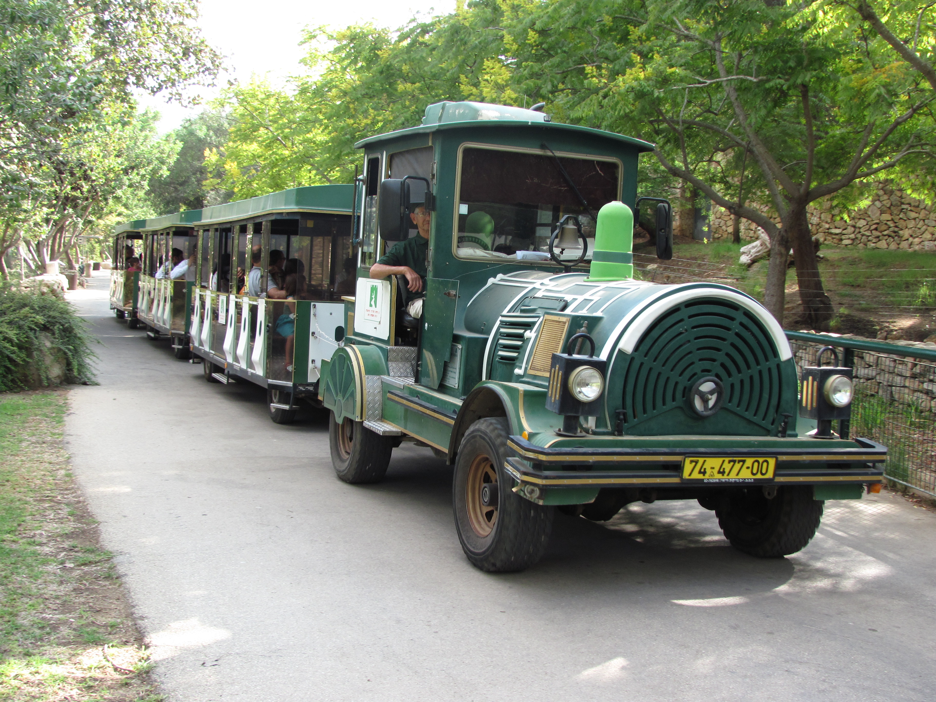 Motorized train ride at the Jerusalem Biblical Zoo.